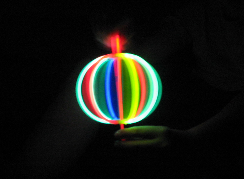 Some Glowsticks